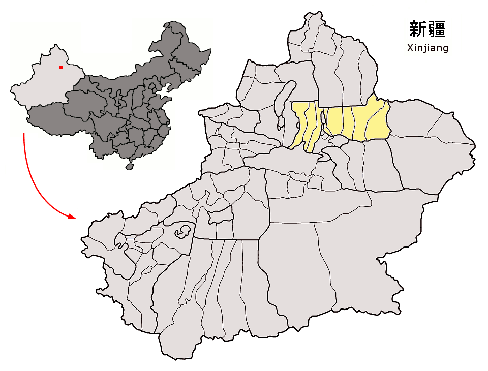 Location of Changji Prefecture (yellow) within Xinjiang autonomous region of China Map drawn in september 2007 using various sources, mainly : Xinjiang Uygur autonomous region administrative regions GIS data: 1:1M, County level, 1990 Xinjiang Counties map from